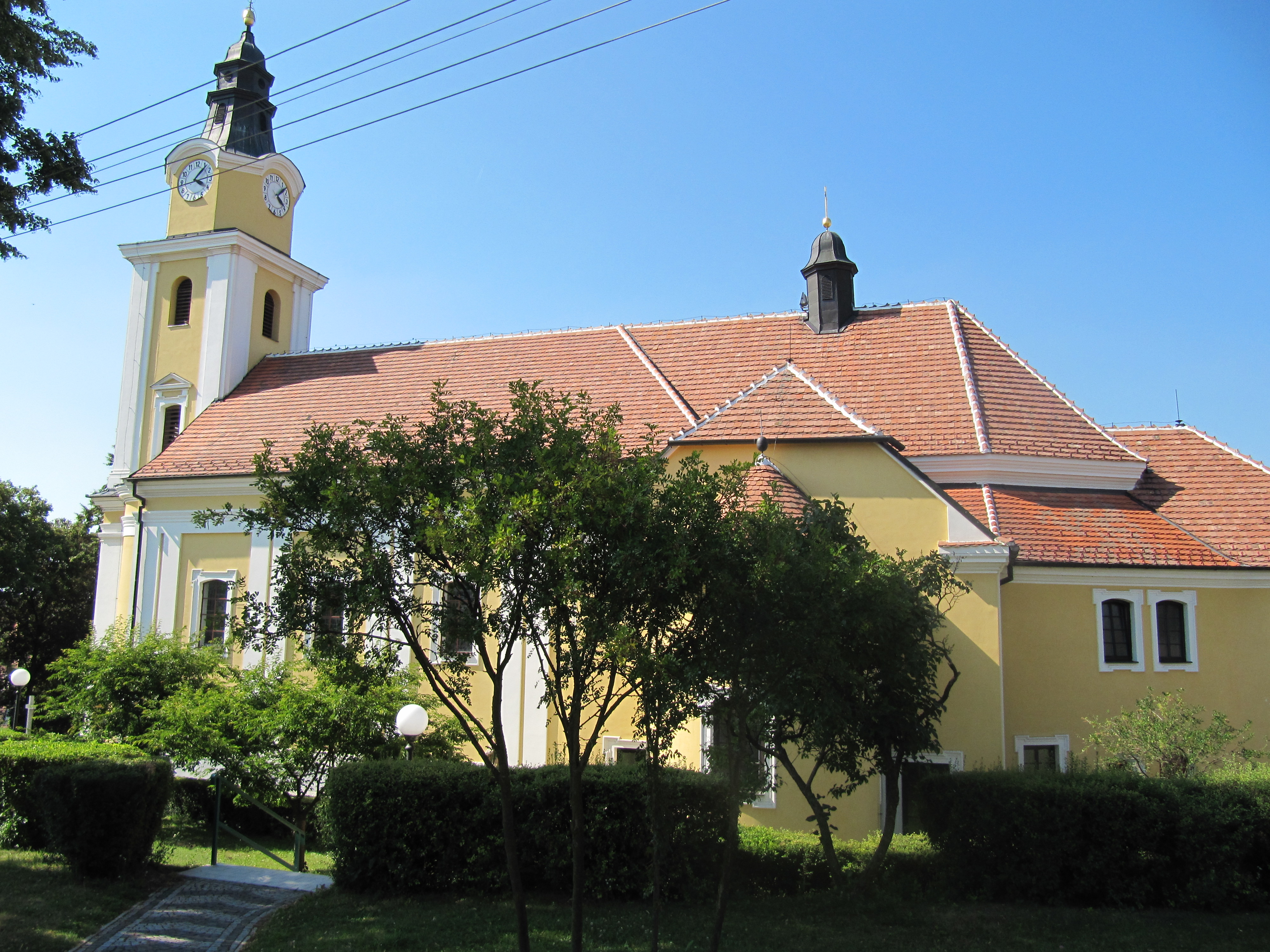 Mutěnice in Hodonín District, Czech Republic. Church of St. Catherine from 1769-1775. This photograph was taken within the scope of the third year of the 'Czech Municipalities Photographs' grant.